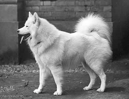 Photograph of Samoyed CH 'Polar Light' taken in 1926.